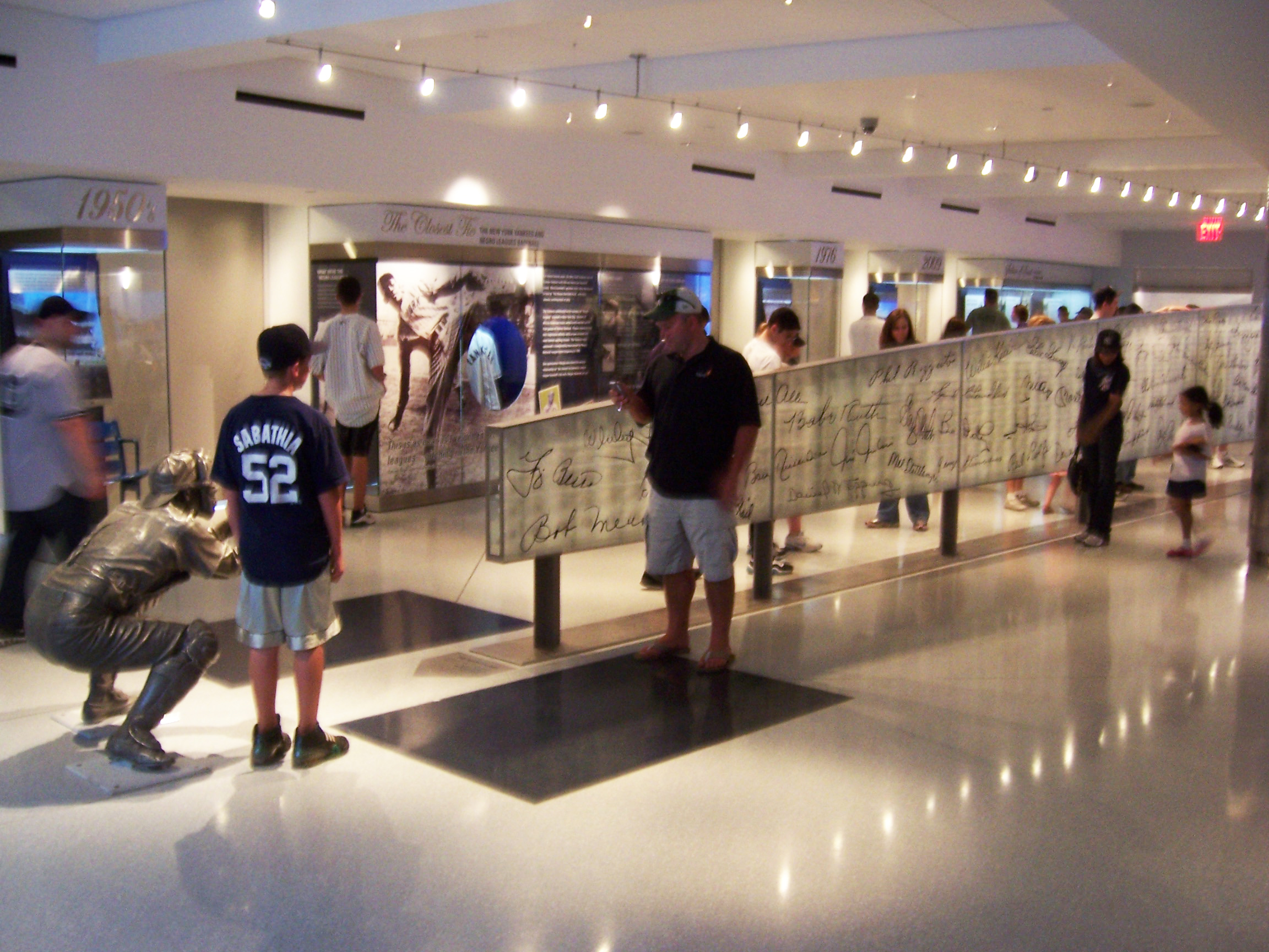 The Yankees Museum in the new Yankee Stadium, during an interleague baseball game between the Philadelphia Phillies and the New York Yankees